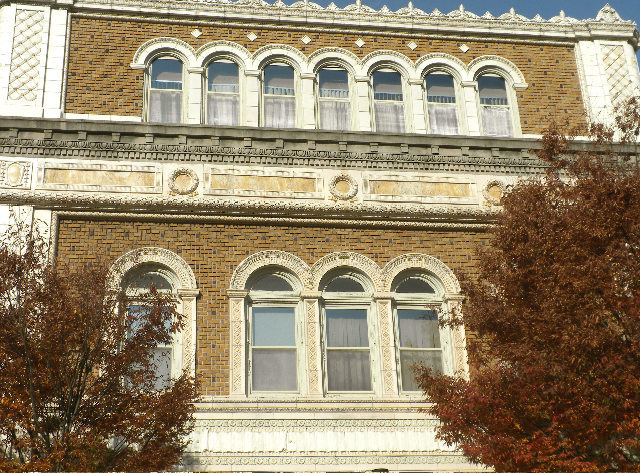 Chapel Street Commercial Historic District, New Haven.